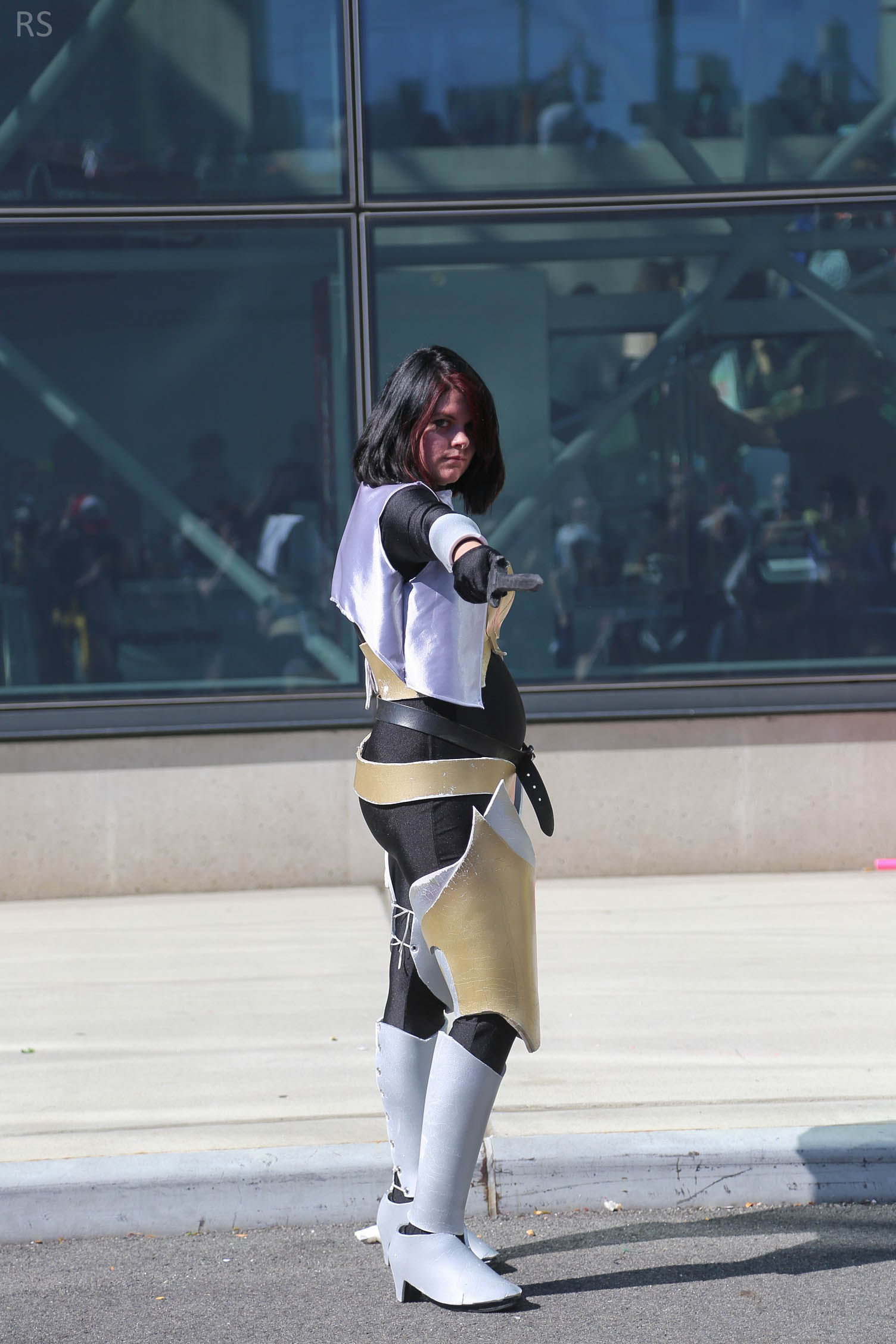 New York Comic Con 2015 - Fiora Cosplay at the 2015 New York Comic Con (NYCC 2015).